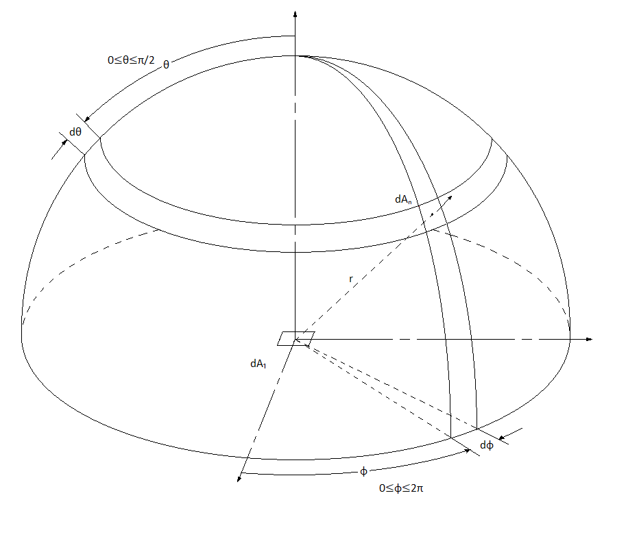 Diagram showing the Stefan-Boltzmann radiative transfer between a black body of area dA1 and a hemisphere of radius r.